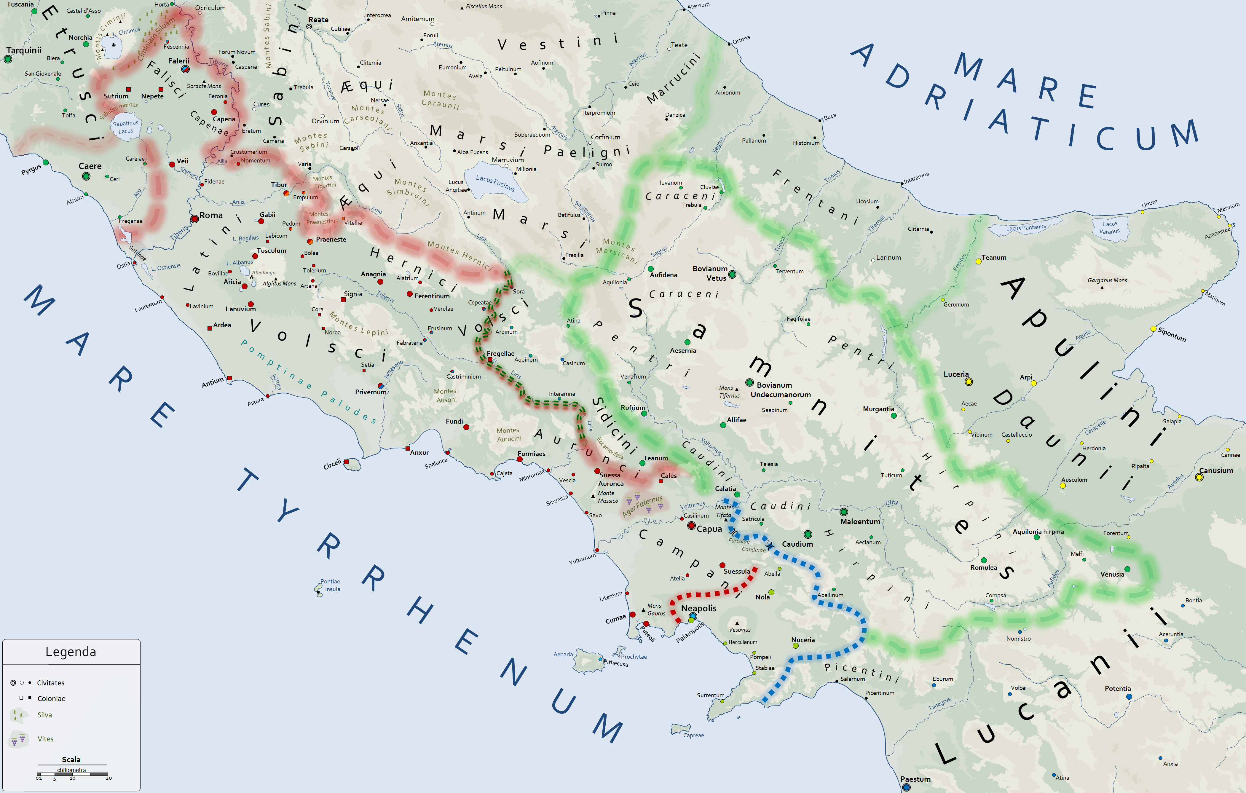 See Deuxième guerre samnite#Contexte for the full legend/caption of the map.